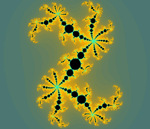 Dynamic plane with Julia set for fc(z)=z^2+c where c= [0.386015, 0.140758]. It is inside period=14 component of Mandelbrot set